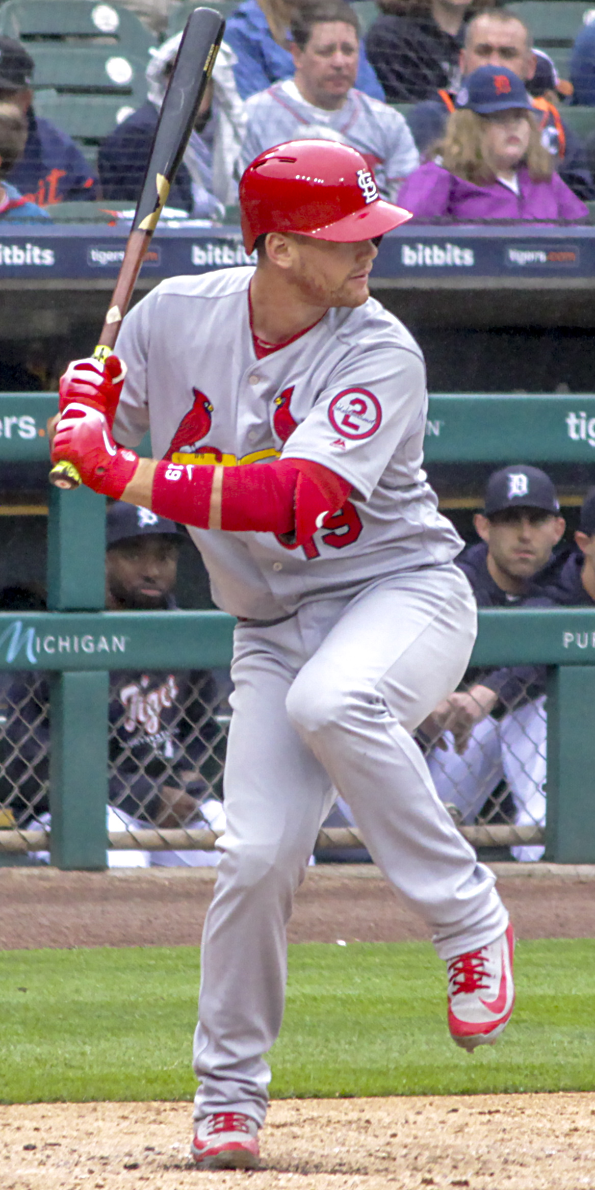 Carson Kelly of the St.Louis Cardinals Batting in detroit, 2018.